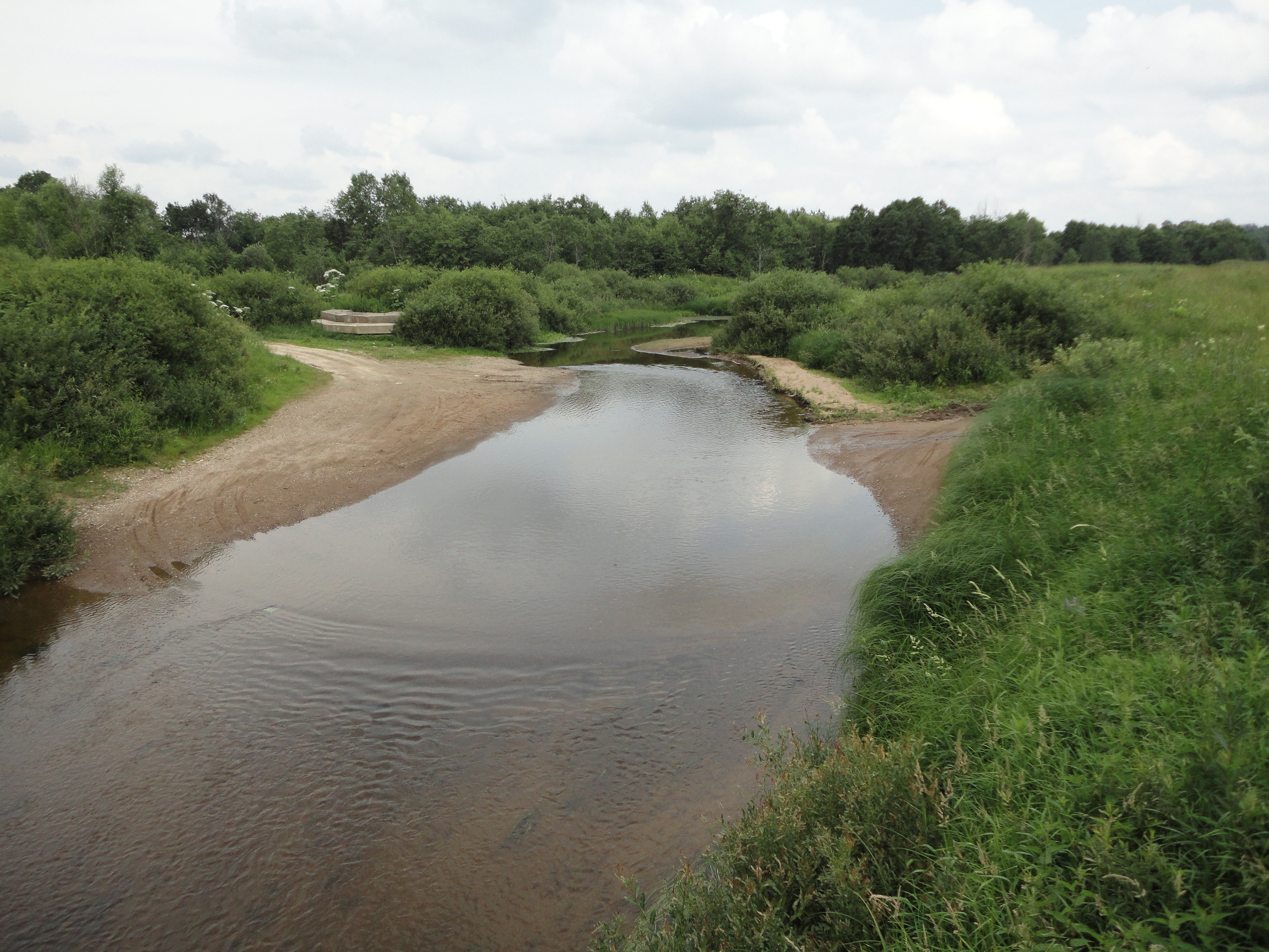 The view of the Bojnya river from the pedestrian bridge